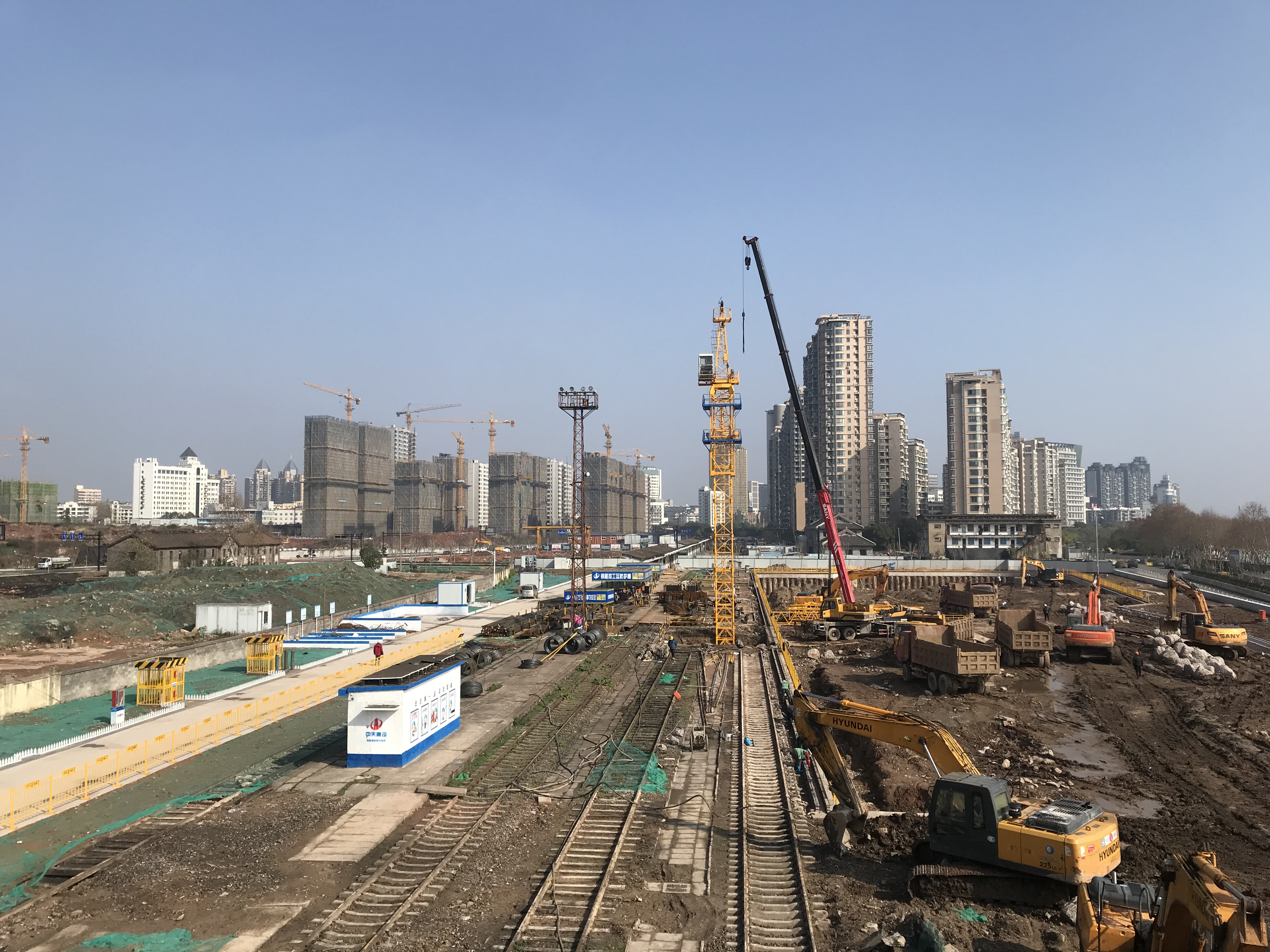 The "Railway Park" is still far from completion